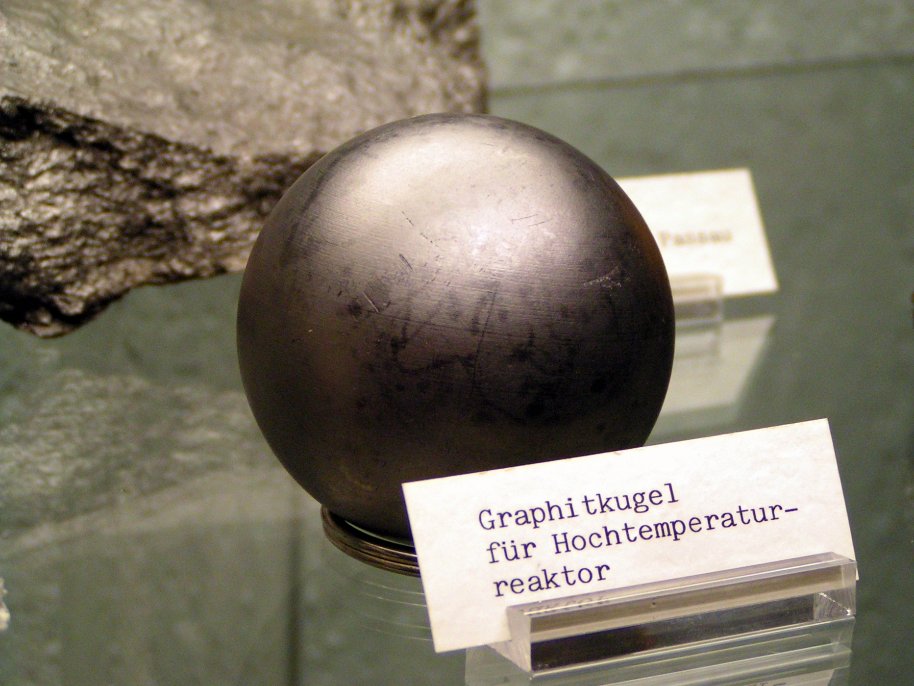 Graphite pebble fuel assembly of a pebble bed reactor